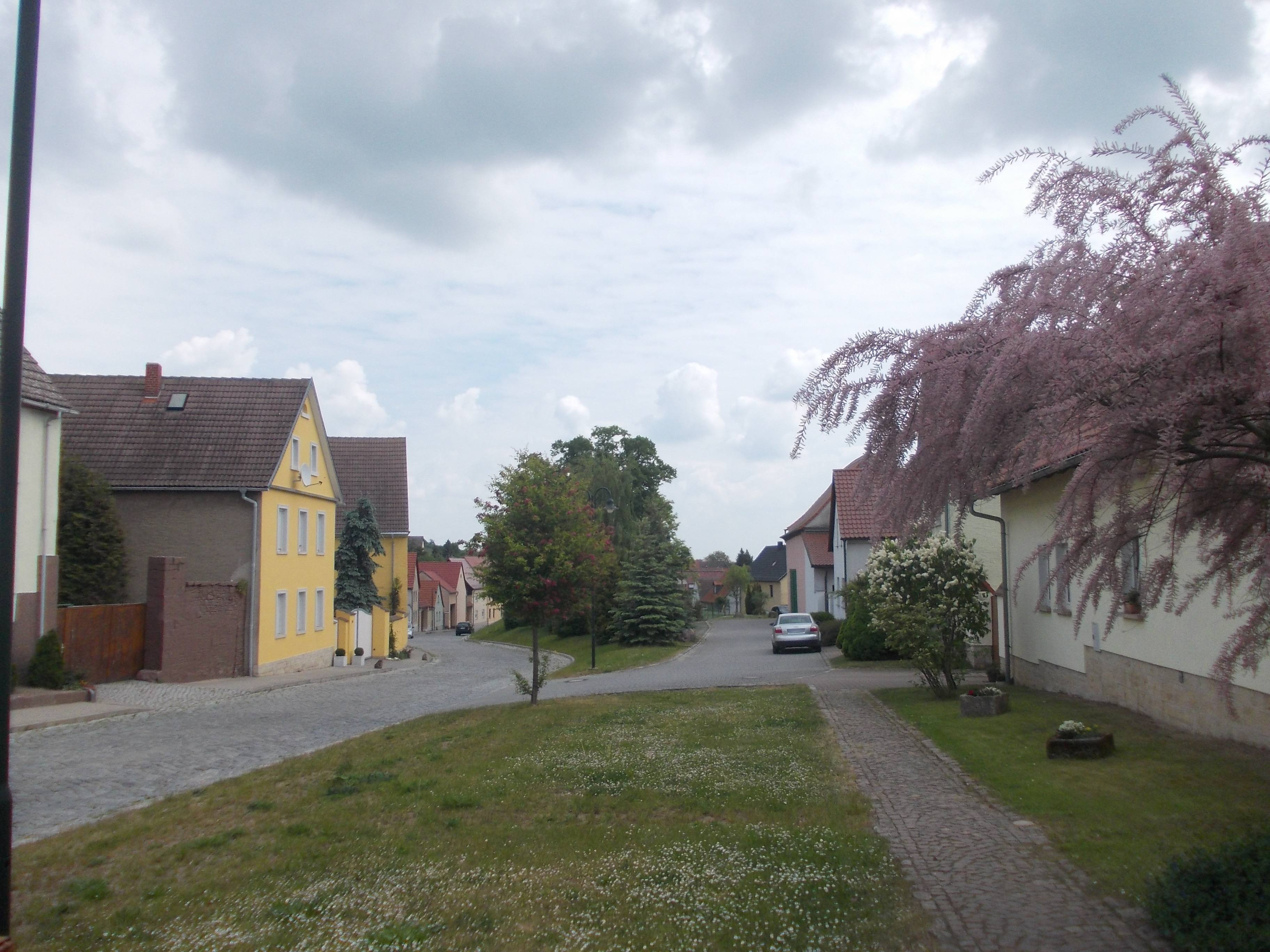 In Hirschroda (Balgstädt, district: Burgenlandkreis, Saxony-Anhalt)